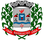 Coat of arm of the city of Barracão, Rio Grande do Sul, Brazil.